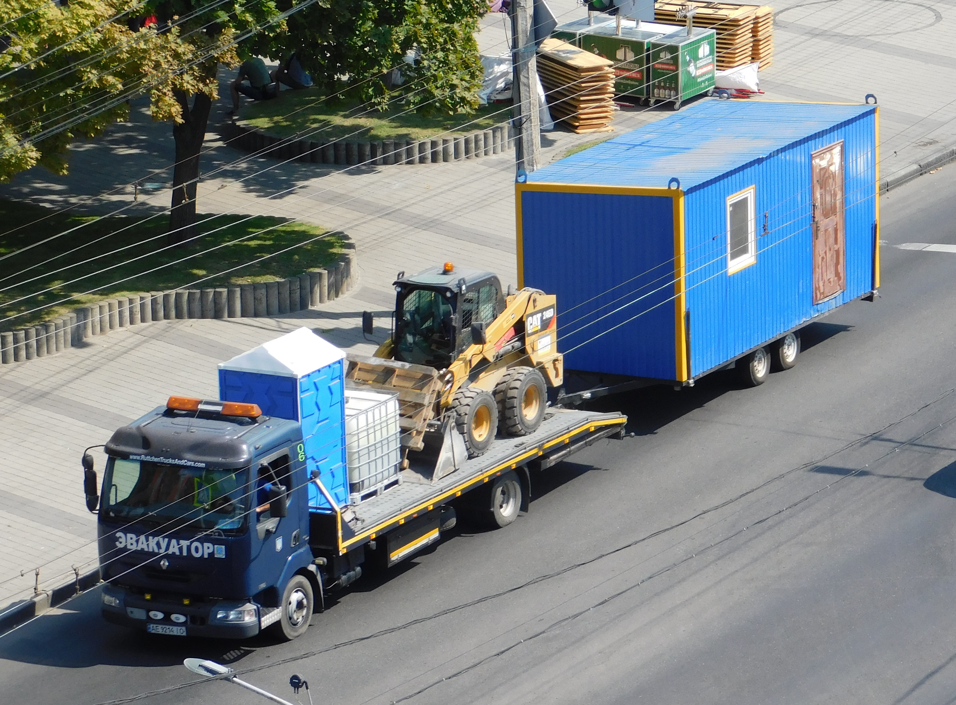 Renault flatbed truck transporting